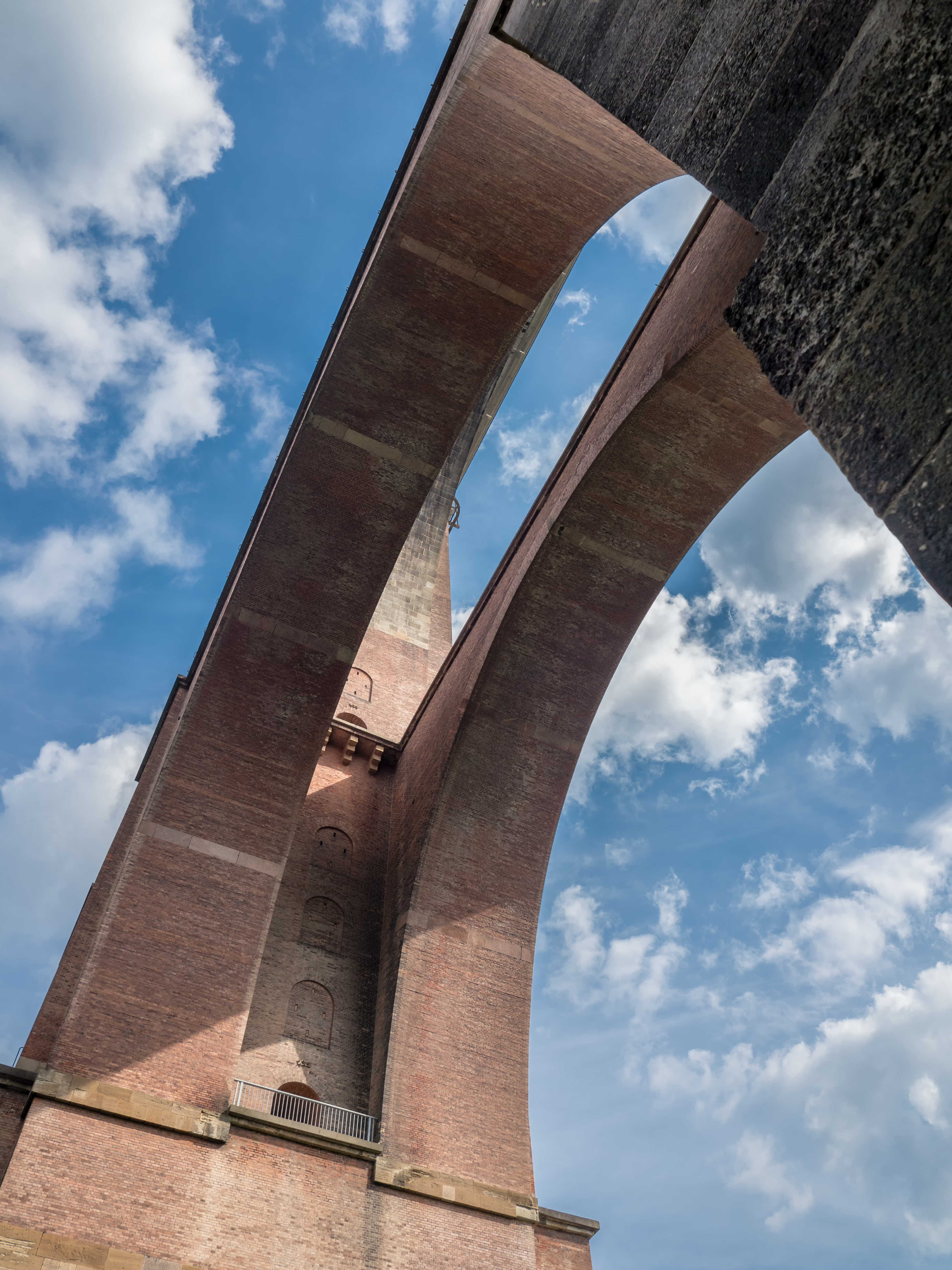 View upwards through an arch of the Göltzschtal bridge